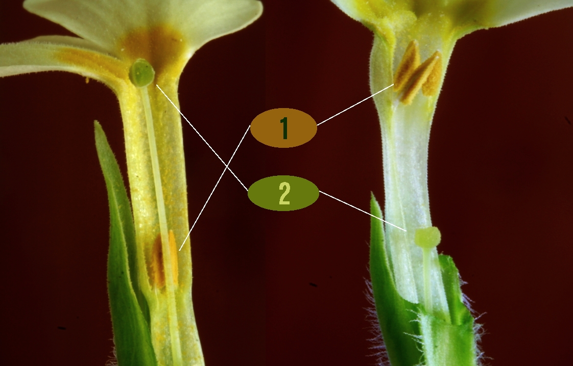 Heterostyly of Primula vulgaris. 1 — styles, 2 — stamens.